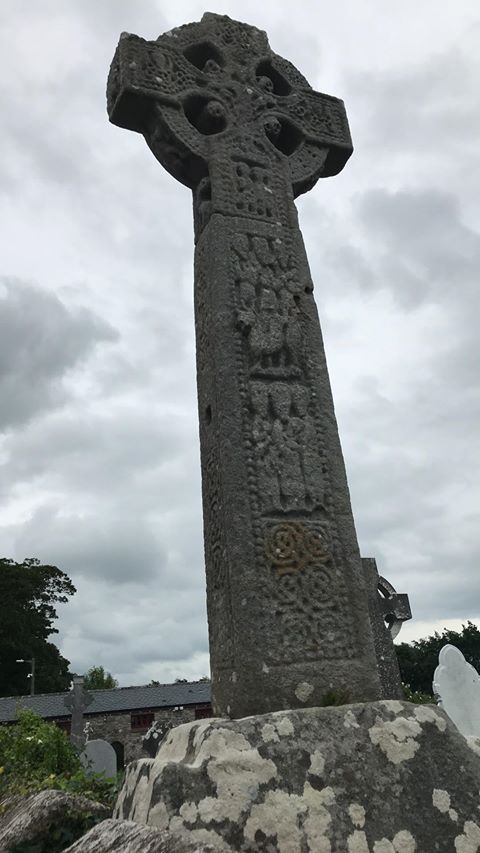 The west face of the 9th century AD High Cross at Drumcliff churchyard, County Sligo